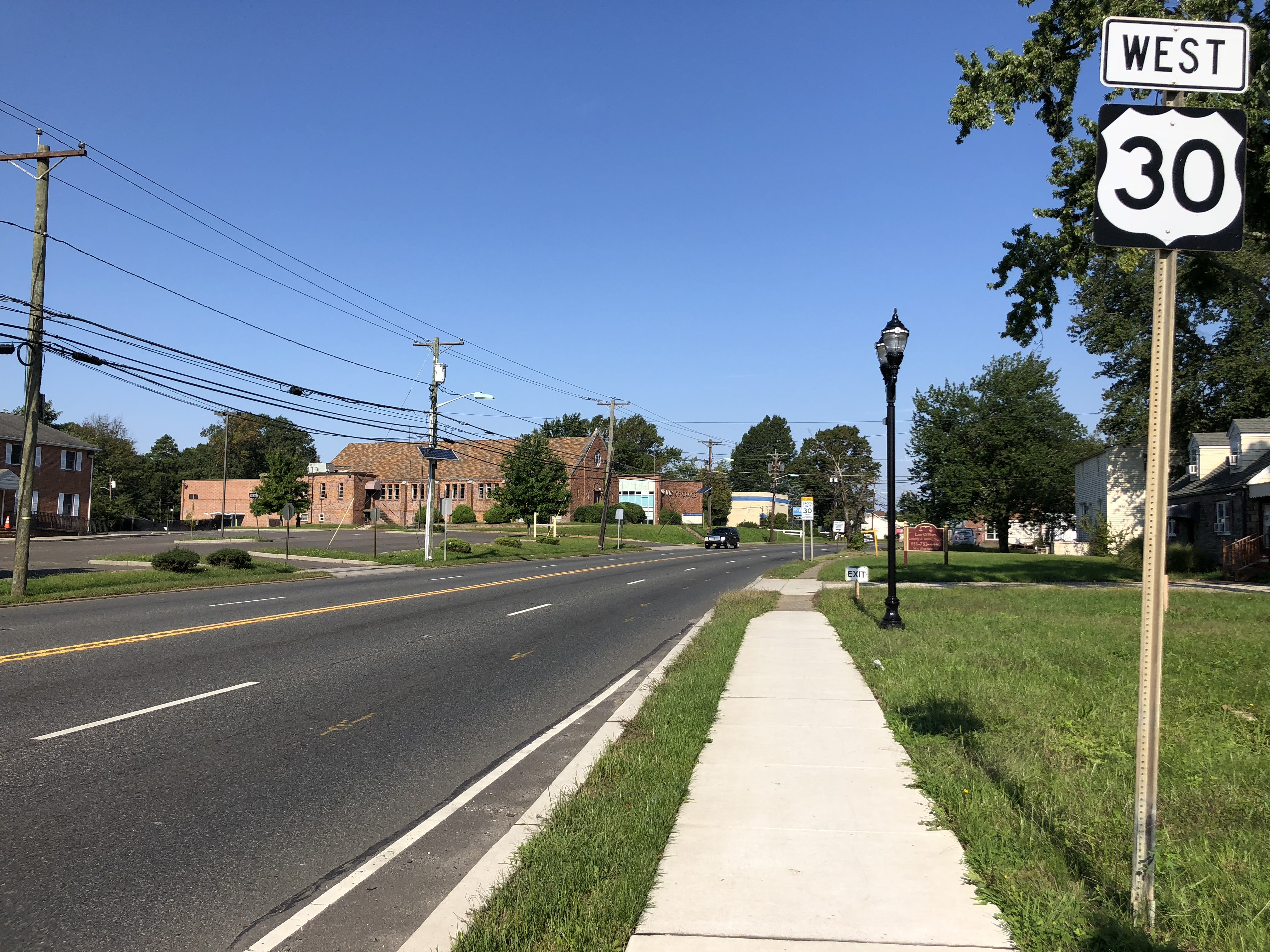 View west along U.S. Route 30 (White Horse Pike) just west of Camden County Route 678 (Somerdale Road) in Somerdale, Camden County, New Jersey